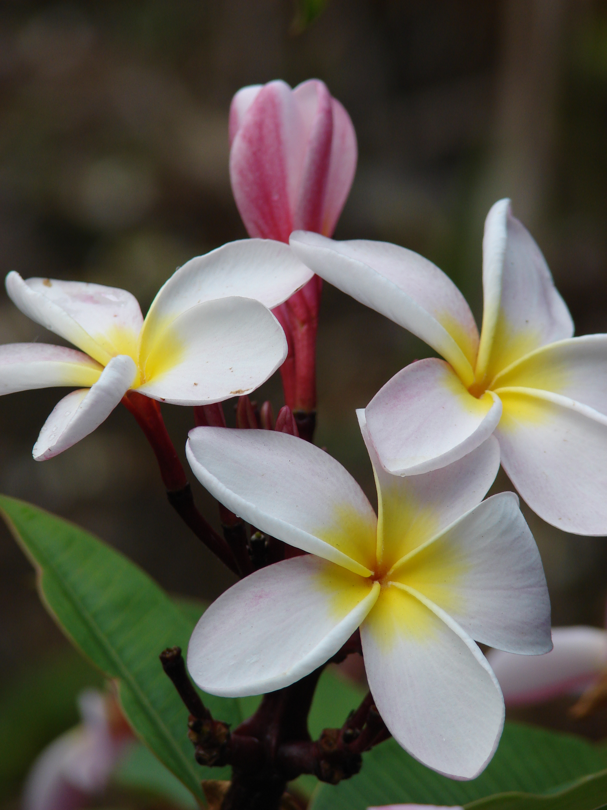 Plumeria rubra (flowers). Location: Maui, Enchanting Gardens of Kula